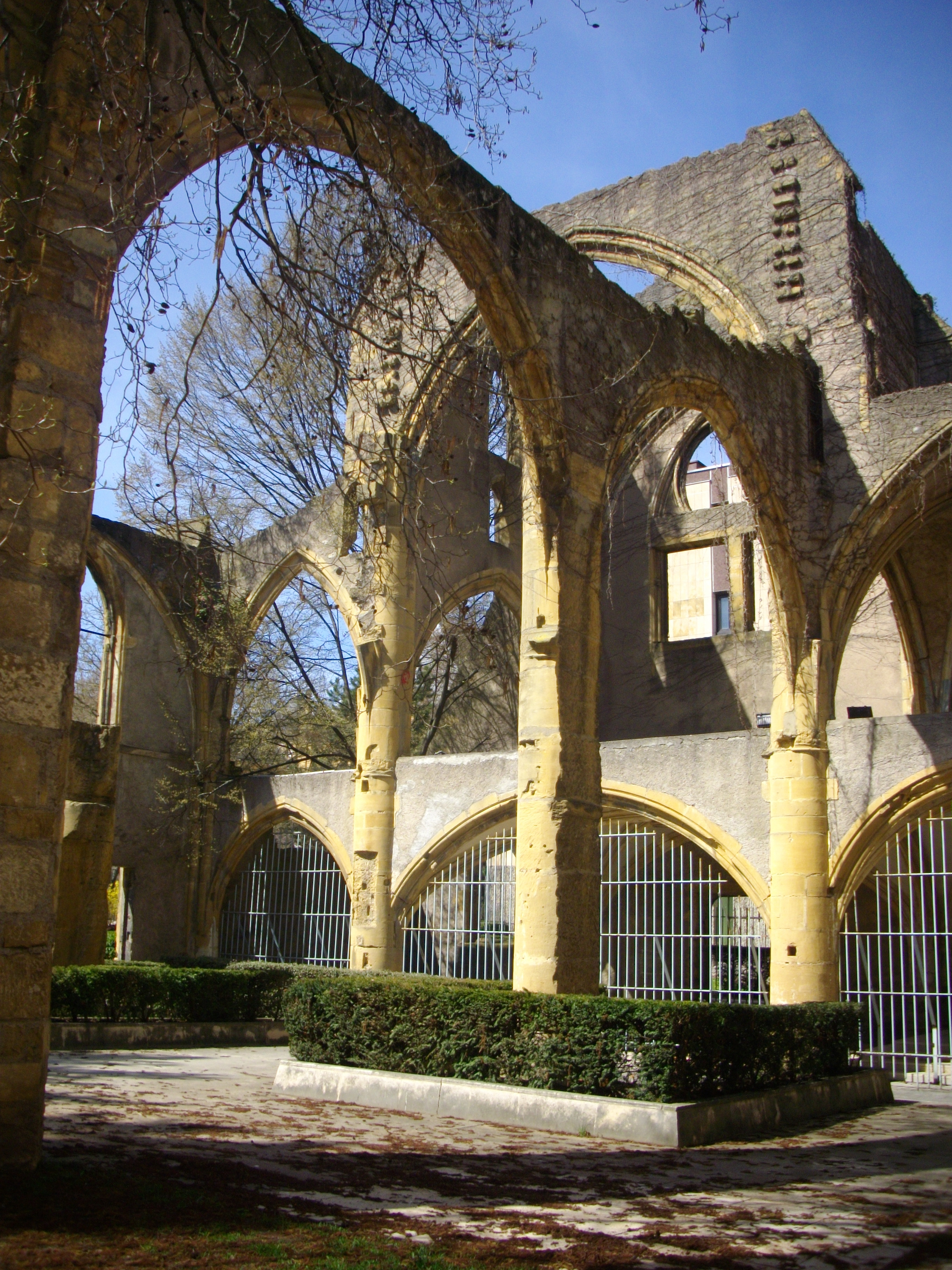 Ruins of Saint Livarius church in Metz (Moselle, France)